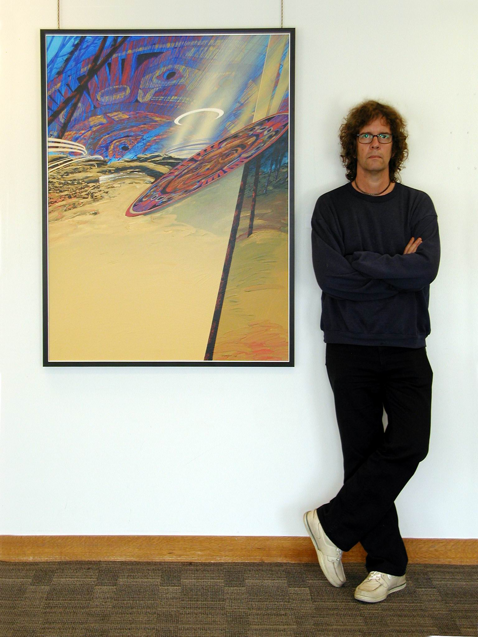 Miguel Cerejido "STAGE 2" 2005